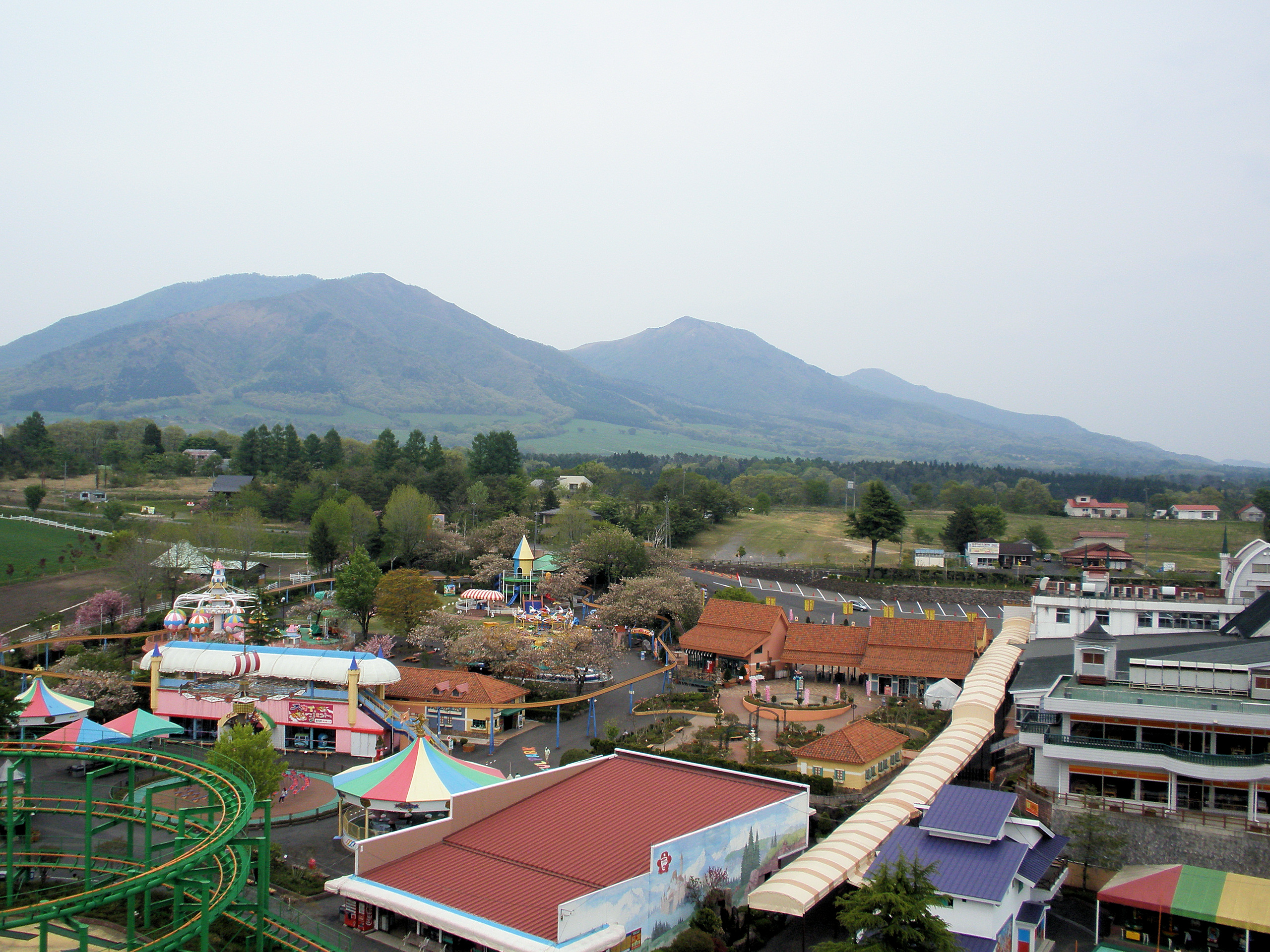 Joyful Park and Hiruzen mountains.